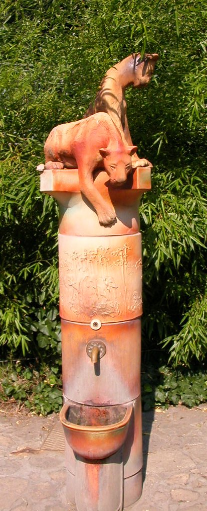 Waterfountain with cat sculptures at the Budapest Zoo